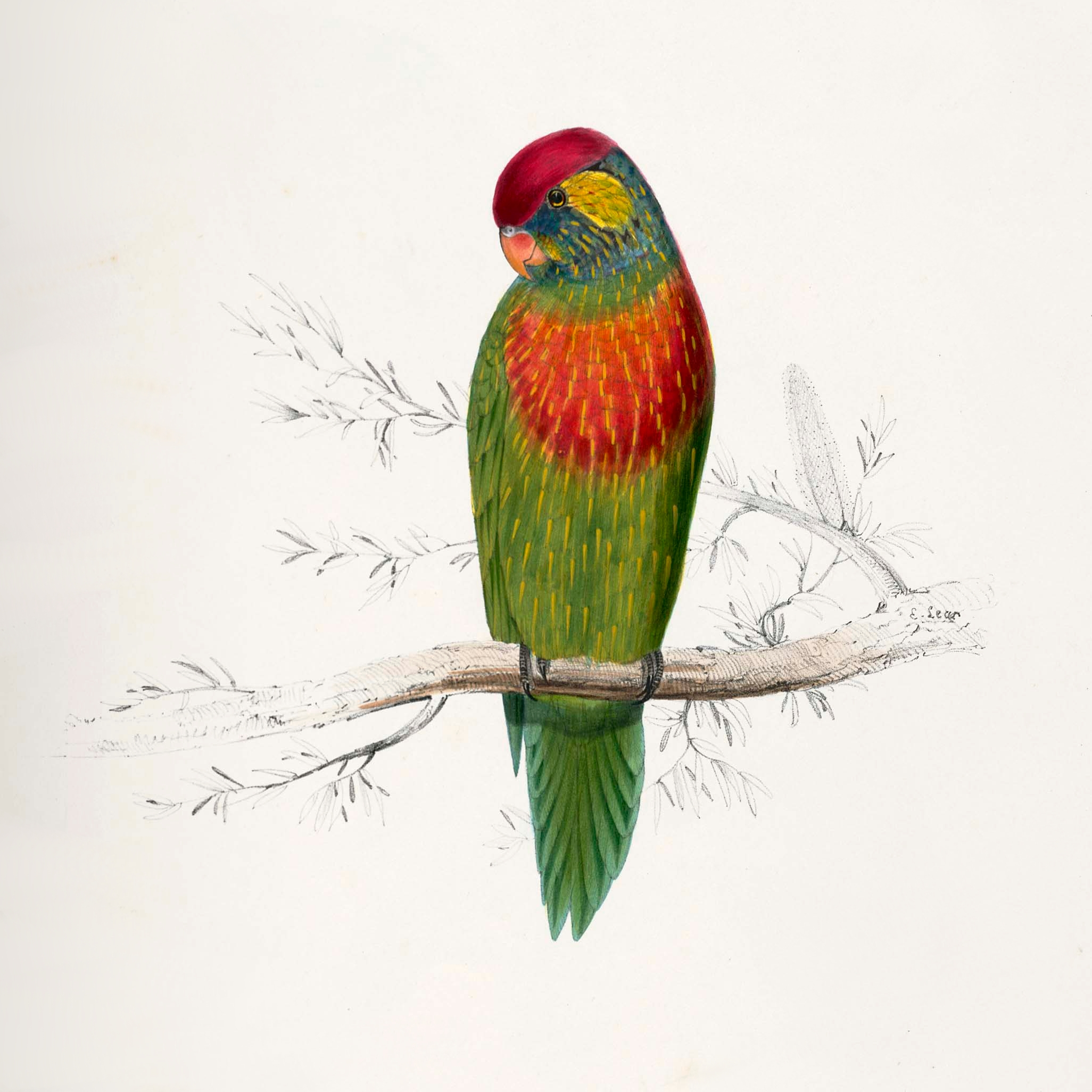 Varied Lorikeet (Psitteuteles versicolor).